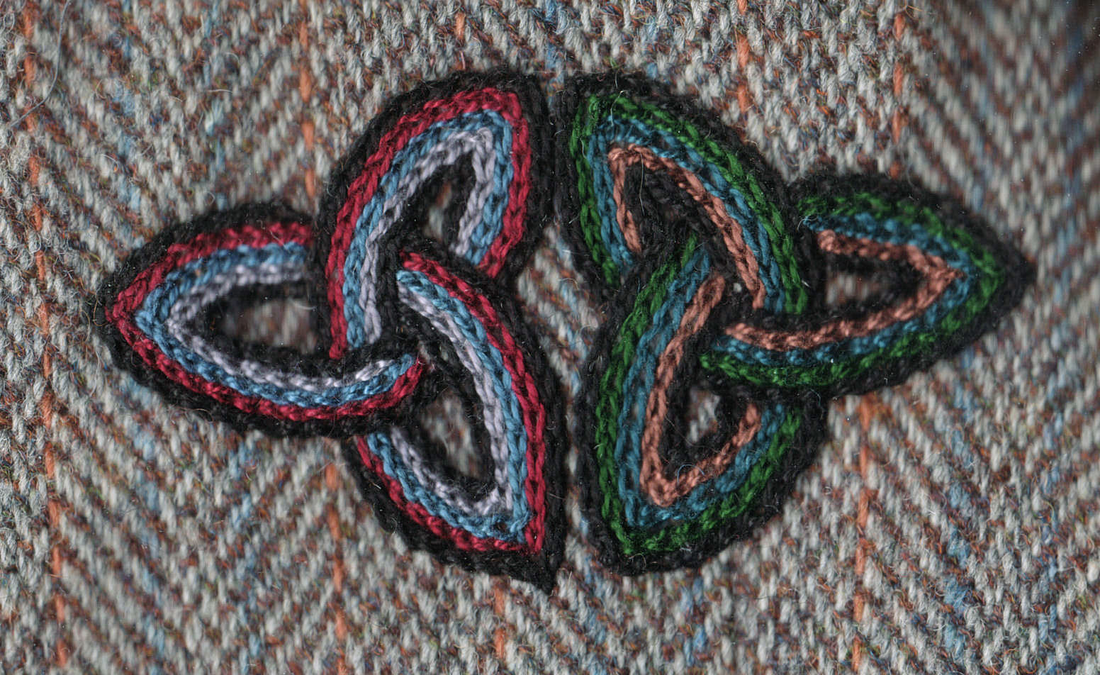 Chain stitch embroidery of a celtic knotwork pattern in perle cotton yarn on Harris tweed ground fabric